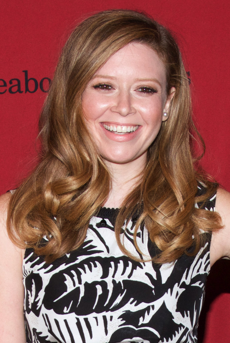 Natasha Lyonne at the Peabody Awards